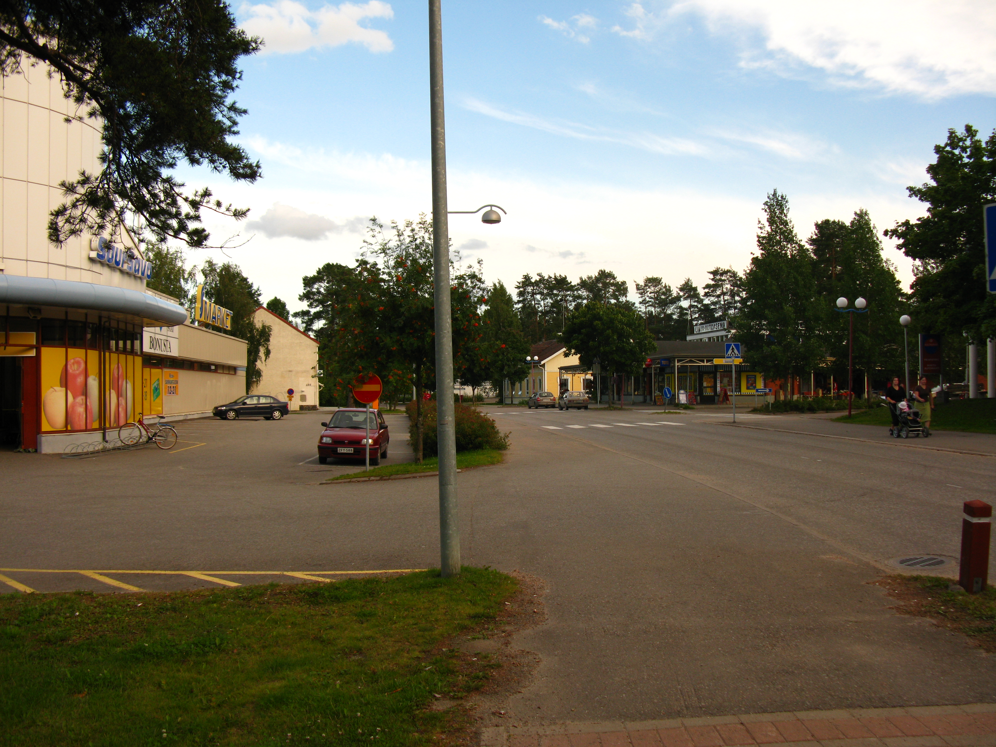 Kylätie street at the centre of the municipality of Rantasalmi in Finland.